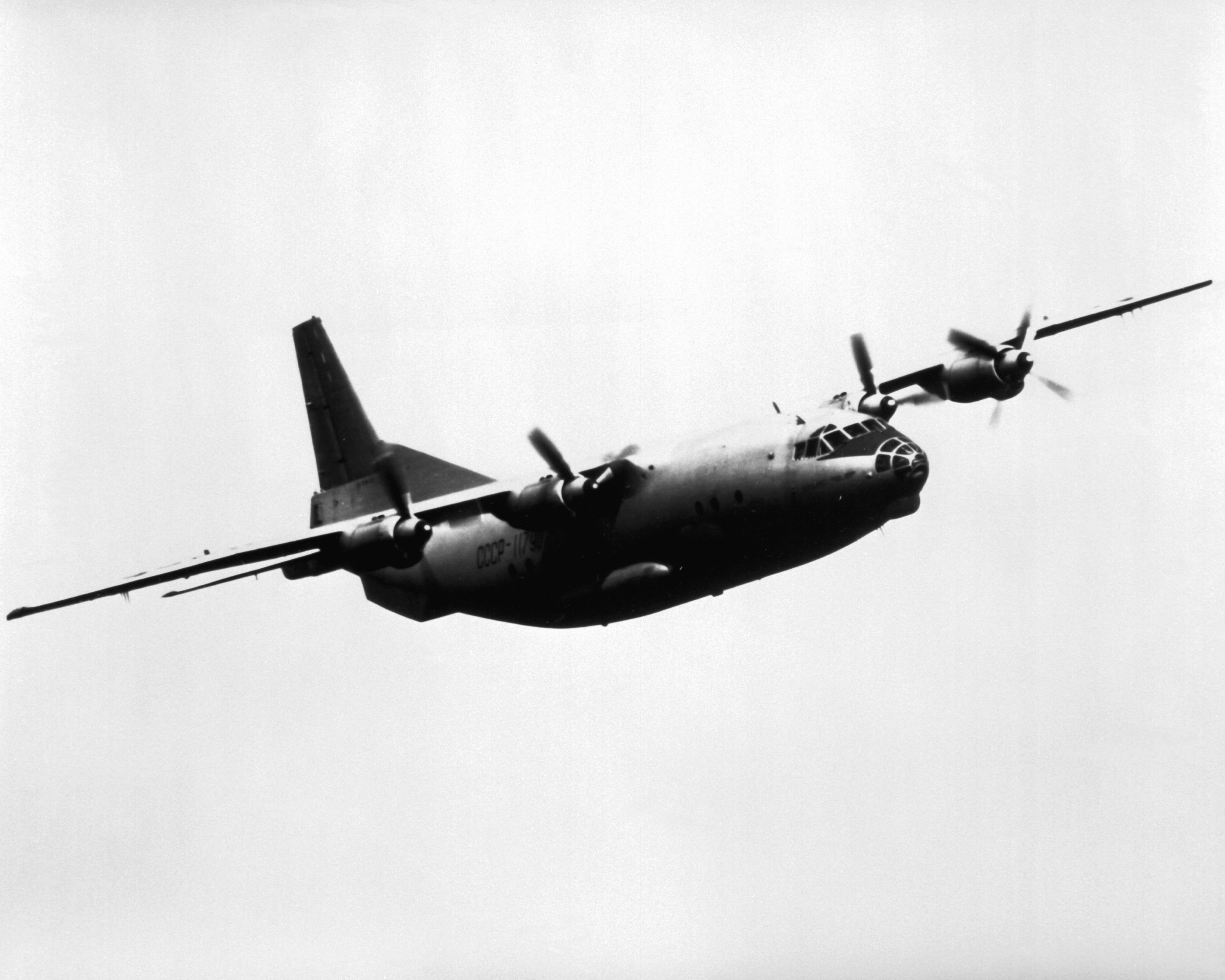 An air-to-air, right front view of a Soviet AN-12 Cub aircraft. Date Shot: 23 Dec 1985